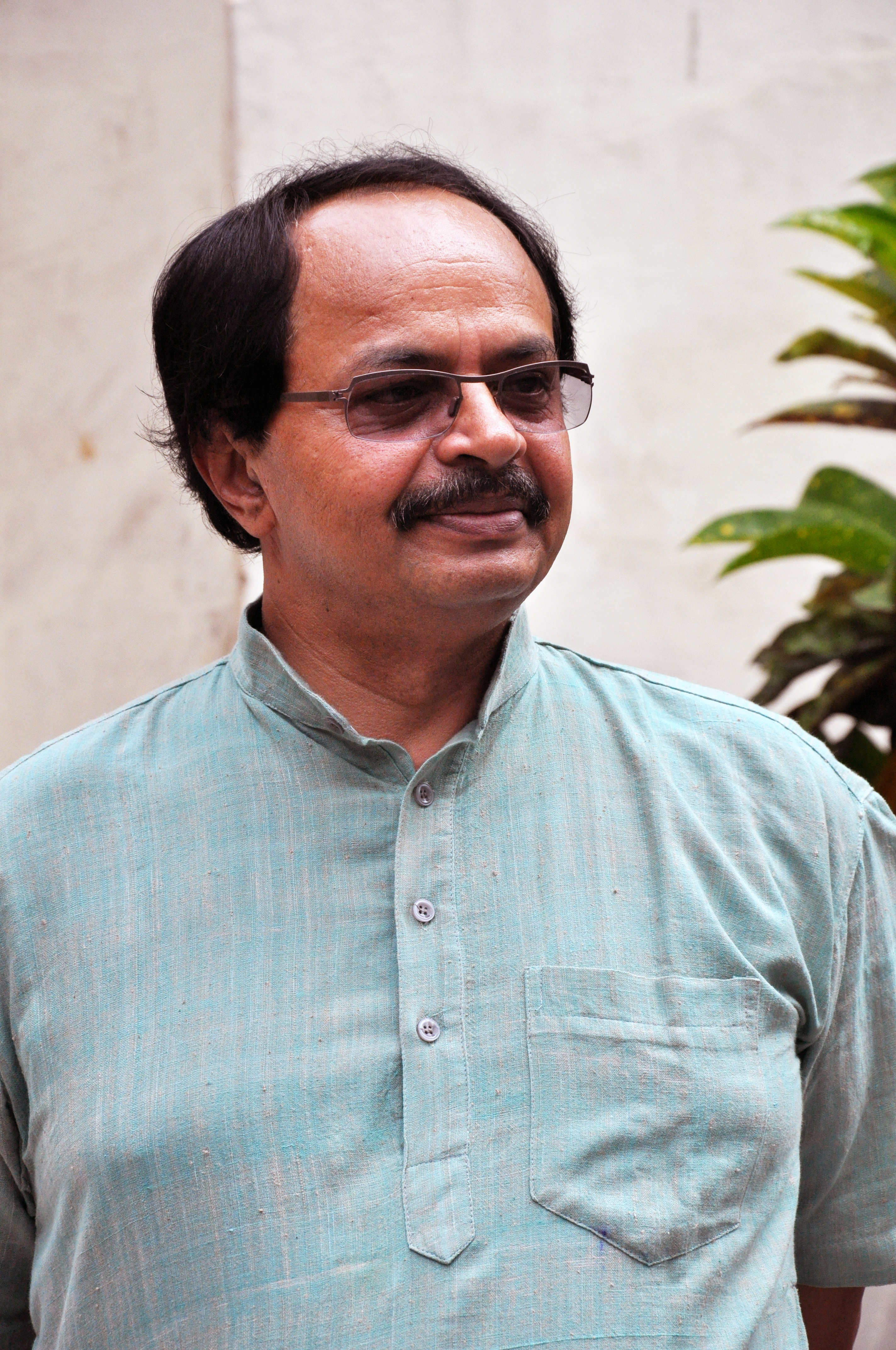 Nagathihalli Chandrashekhar. At M S Sriram's book release function. One of the well known directors of Kannada language films.ಕನ್ನಡ: ನಾಗತಿಹಳ್ಳಿ ಚಂದ್ರಶೇಖರ್